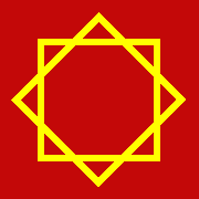 The Marinid emblem. (Based on